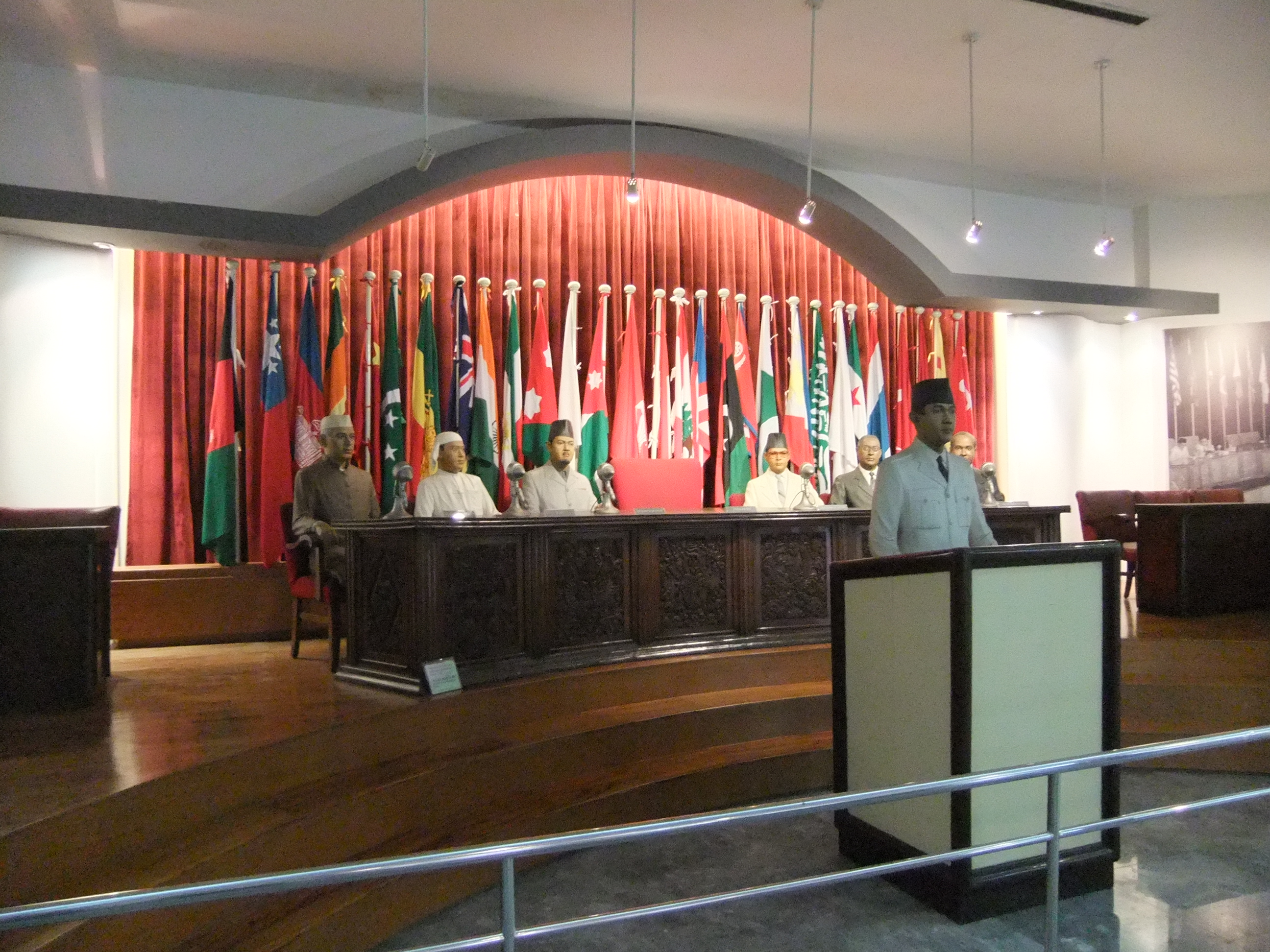 Asia-Africa Conference Museum